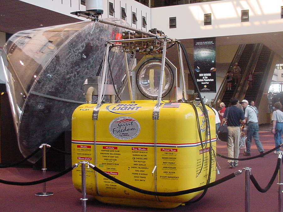 Steve Fossett became the first person to make a solo flight around the world in a balloon. He launched the Bud Light Spirit of Freedom from Northam, Australia, on June 19, 2002 and landed 14 days and 19 hours later, on July 4, in Queensland, Australia.